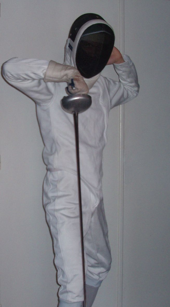 Second position in Fencing (Seconde)